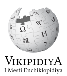 A logo for Wikipedia in the Vlax Romani language.